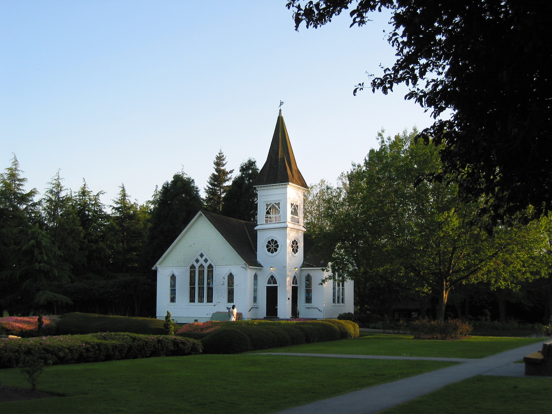 Minoru Chapel. Minoru Chapel is, of course, in Minoru Park, which is located off Minoru Blvd. in Richmond, B. C. It is a very popular place for weddings and the park is a popular place for picnics. Further back in the trees is a lovely duck pond, a perfect place for a warm summer evening's stroll.